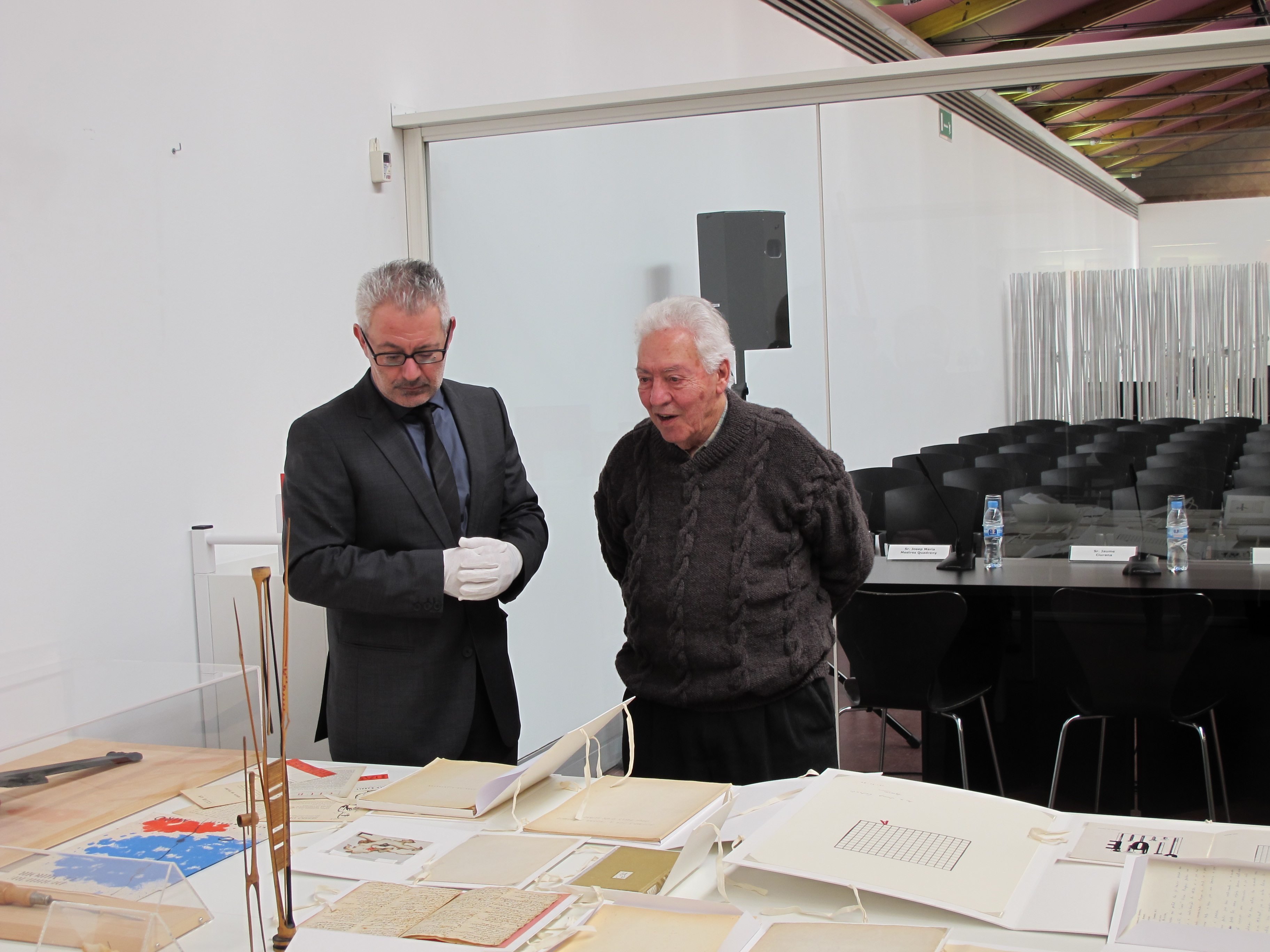 Josep Maria Mestres Quadreny with Bartomeu Marí, MACBA director, during the presentation of Joan Brossa Archive